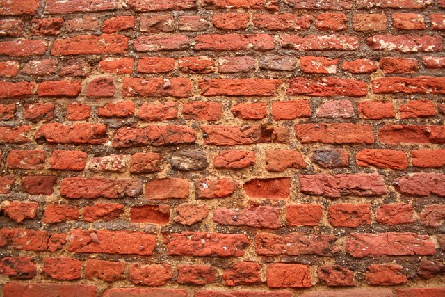 English Bond brick wall. Some of the earliest brickwork in England at The Old College [1] These bricks were laid in English bond in 1454